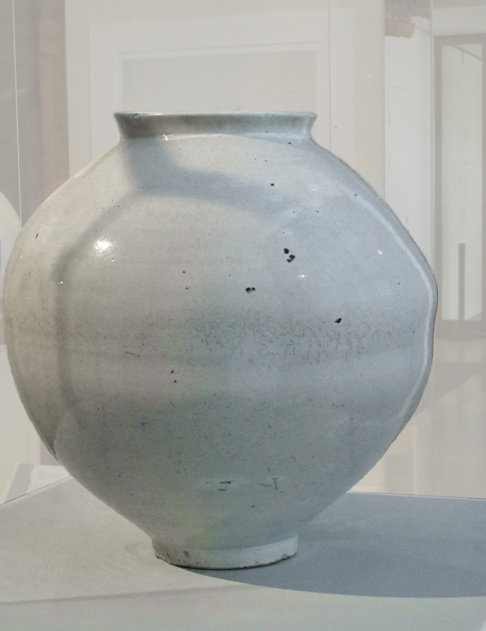 Moon jar. Glazed white porcelain 'full moon' jar. Joseon dynasty, 18th C. H. 47 cm. D. 44,5 cm. (Widest Point). British Museum. number 1999,0302.1. On display Room 67